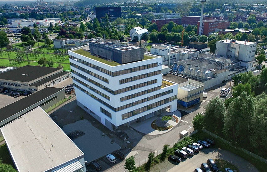 View of a multi-functional building within Vetter’s overall Schützenstrasse site in Ravensburg, Germany; top left: 110 kV Ravensburg substation